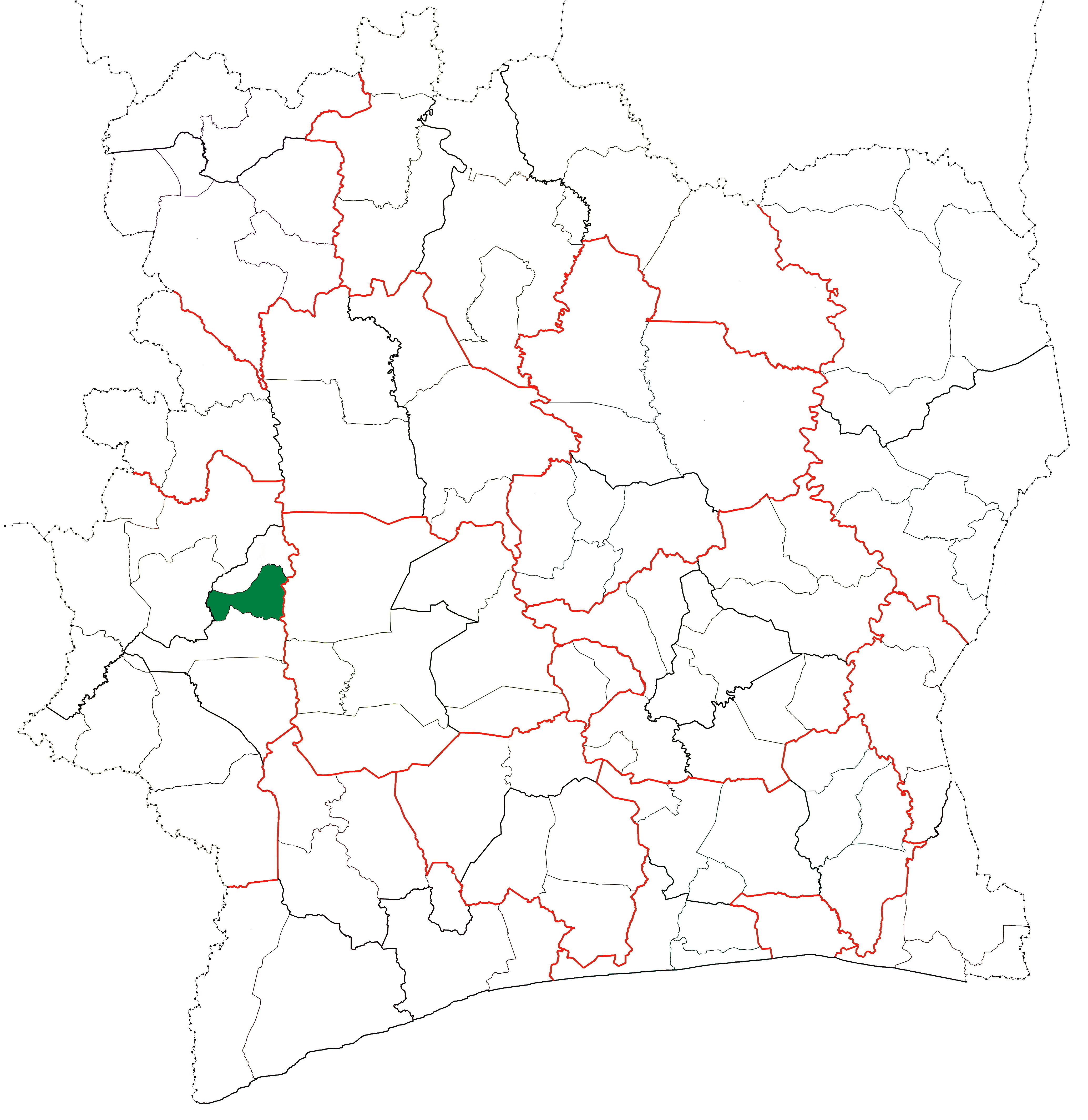 Locator map for Kouibly Department in Côte d'Ivoire.